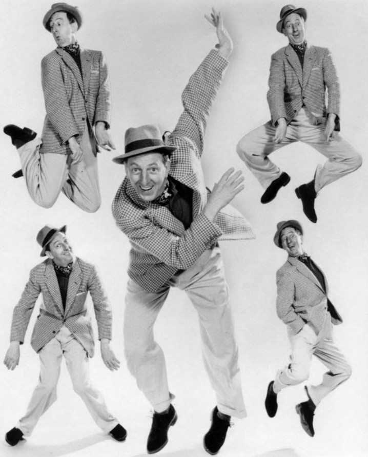 Promotional photo of Ray Bolger from the television program The Bell Telephone Hour.